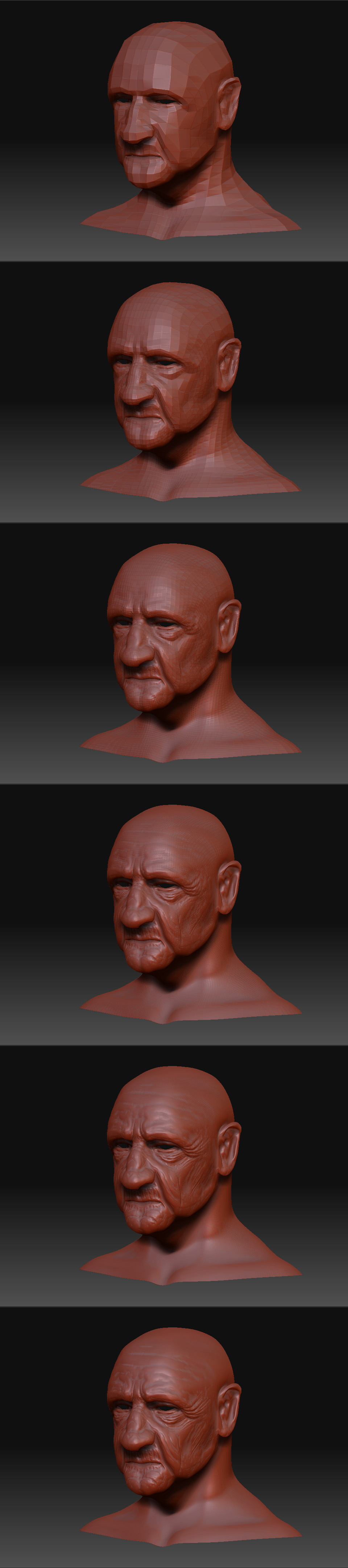 6 subdivision-levels of a ZBrush model: 1486, 5860, 23260, 92668, 369916 and 1,478 million polygons